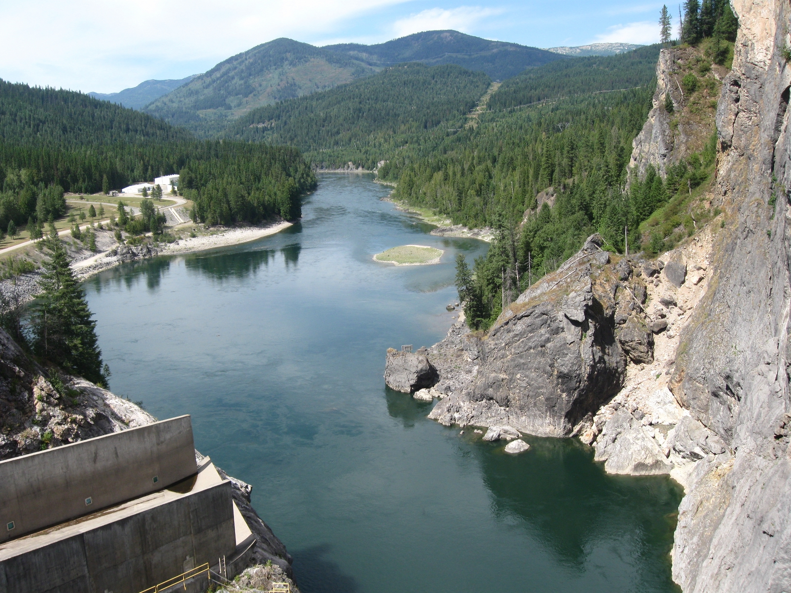 River below Boundary Dam